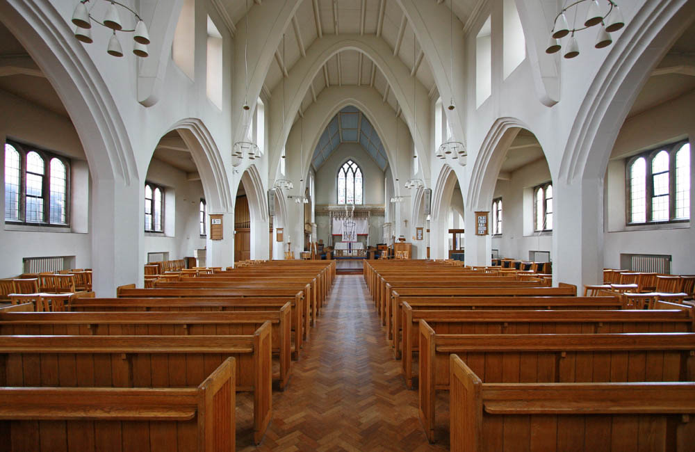 St Mark, Westmoreland Road, Bromley - East end